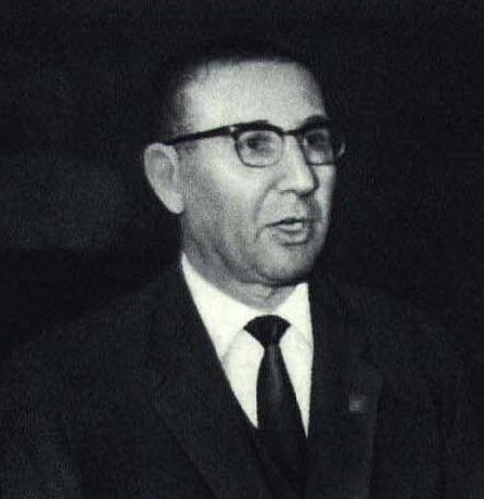 1967-01 1966年阿尔巴尼亚穆罕默德·谢胡 Mehmet Ismail Shehu